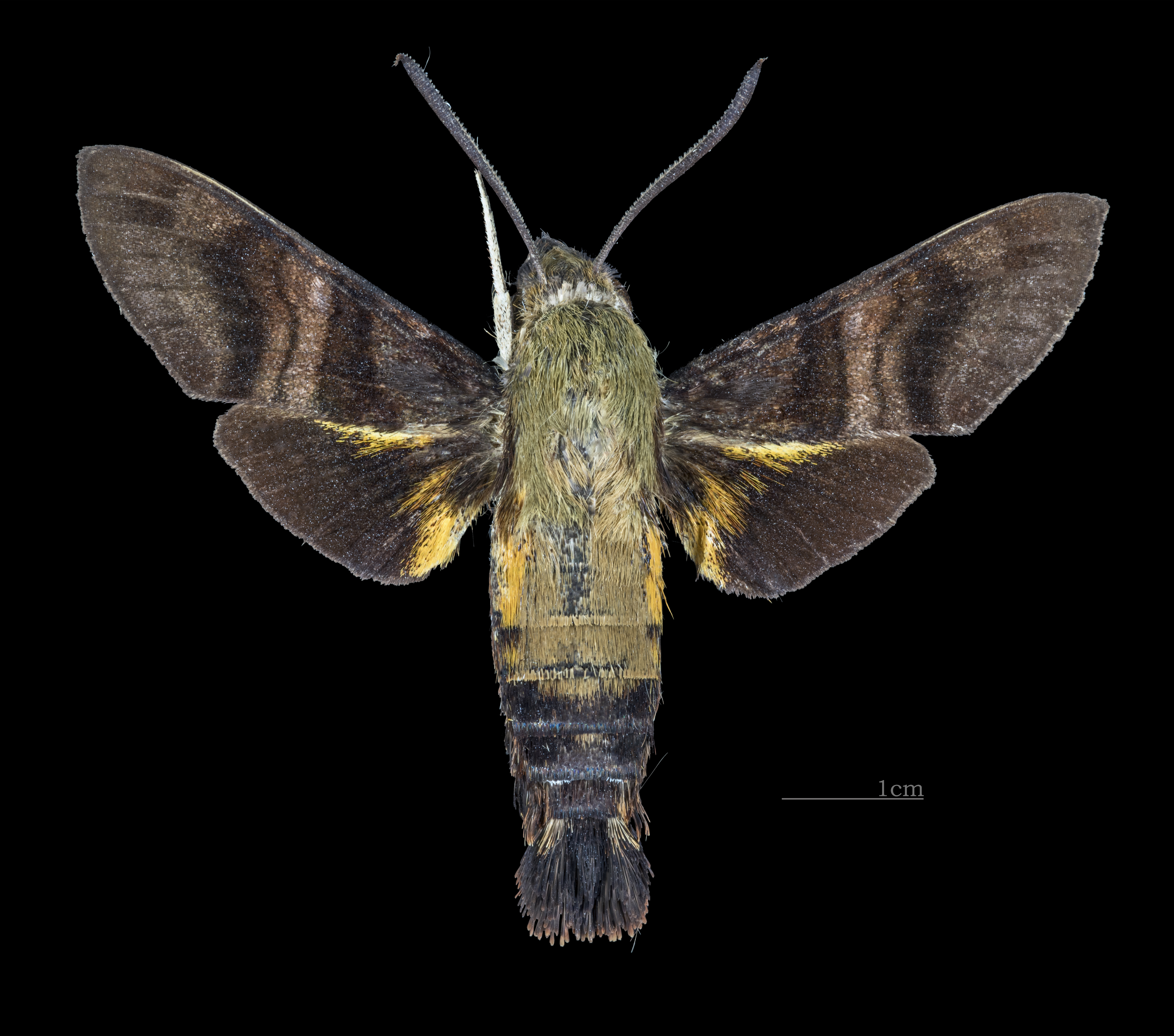 Macroglossum avicula - Dorsal side Collection of the Mathematician Laurent Schwartz